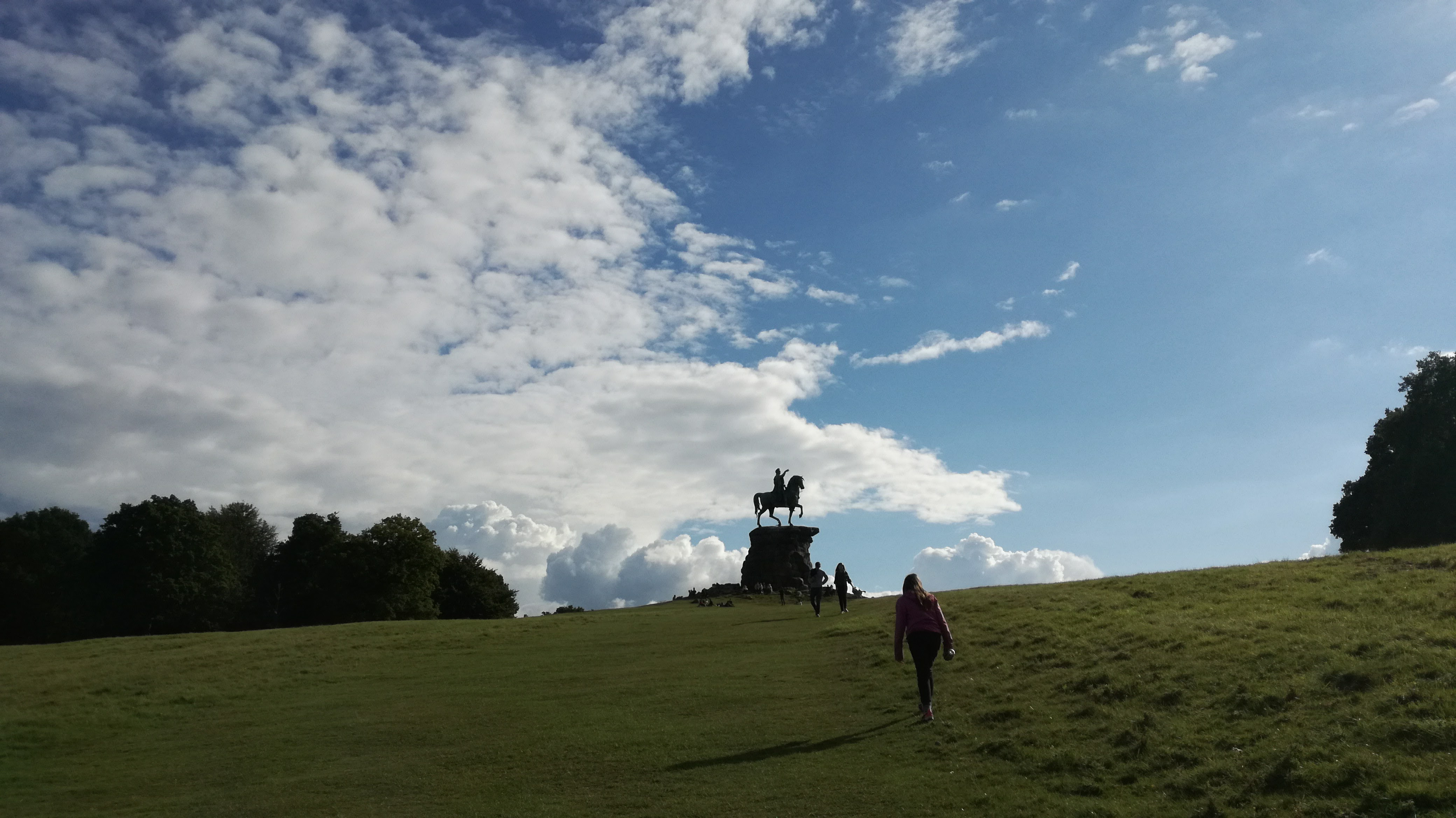 The Copper Horse (16/09/2017)